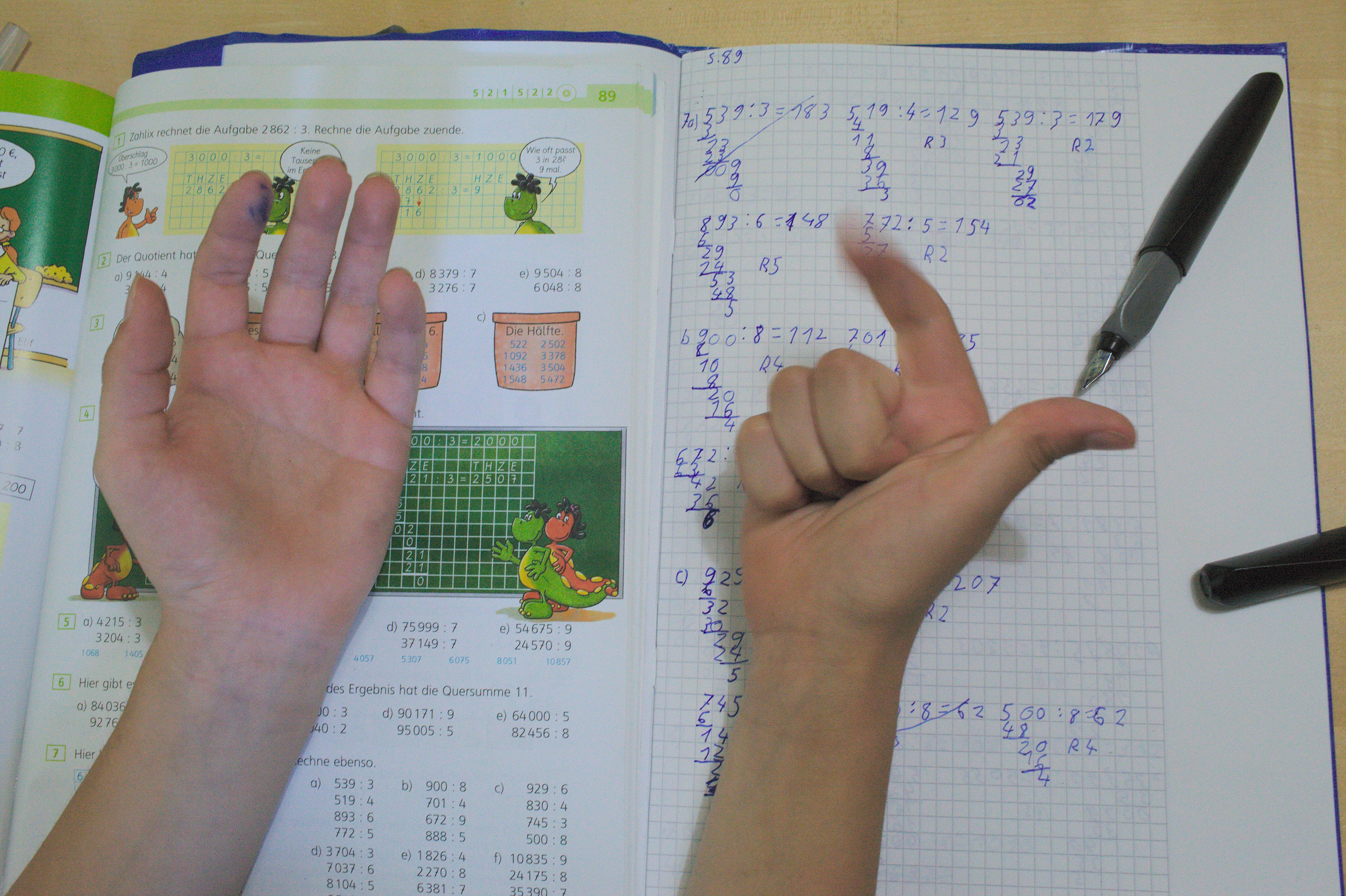 Child doing maths homework, calculating with fingers